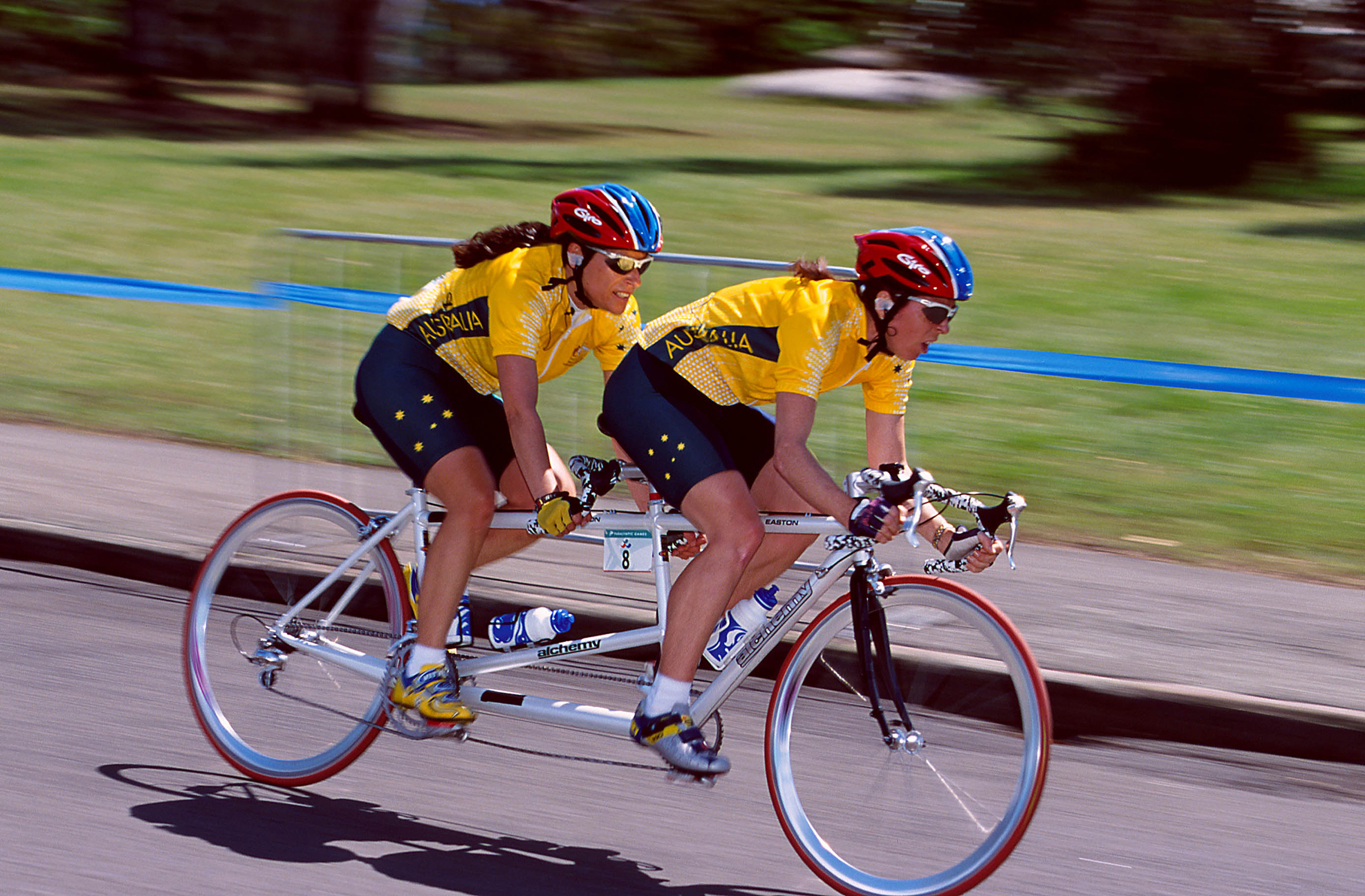 Action shot of Australian road cyclists Lynette Nixon and Lyn Lepore on the road during 2000 Sydney Paralympic Games road race